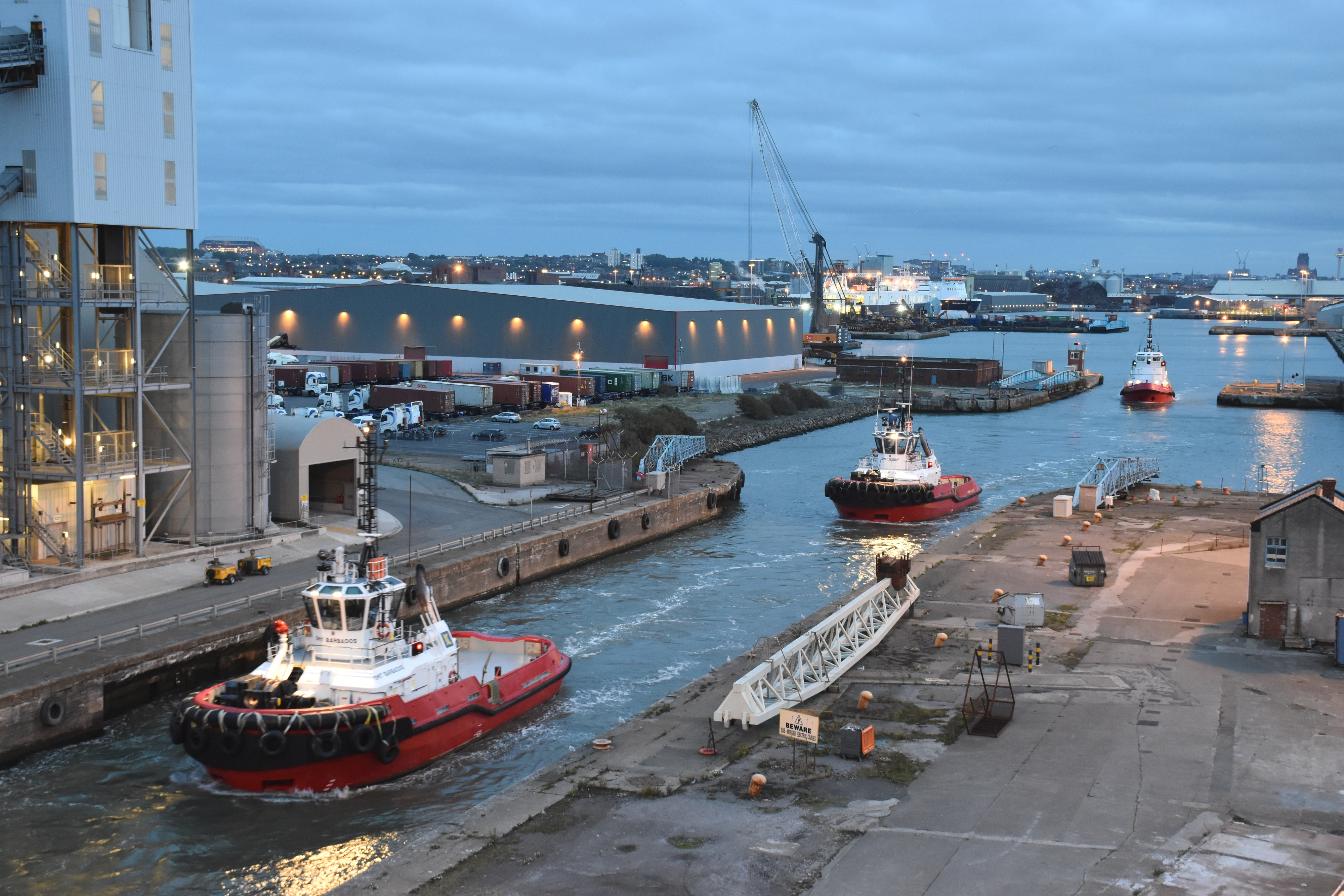 An evening shot of three Smit tugs transitting the Liverpool dock system, 7 October 2018. Left to right SMIT BARBADOS, SMIT DONAU and SMIT WATERLOO. The docks visible are, left to right, Hornby passage, followed by the infilled Hornby Dock, the still active Alexandra Dock and in the background Langton Dock.